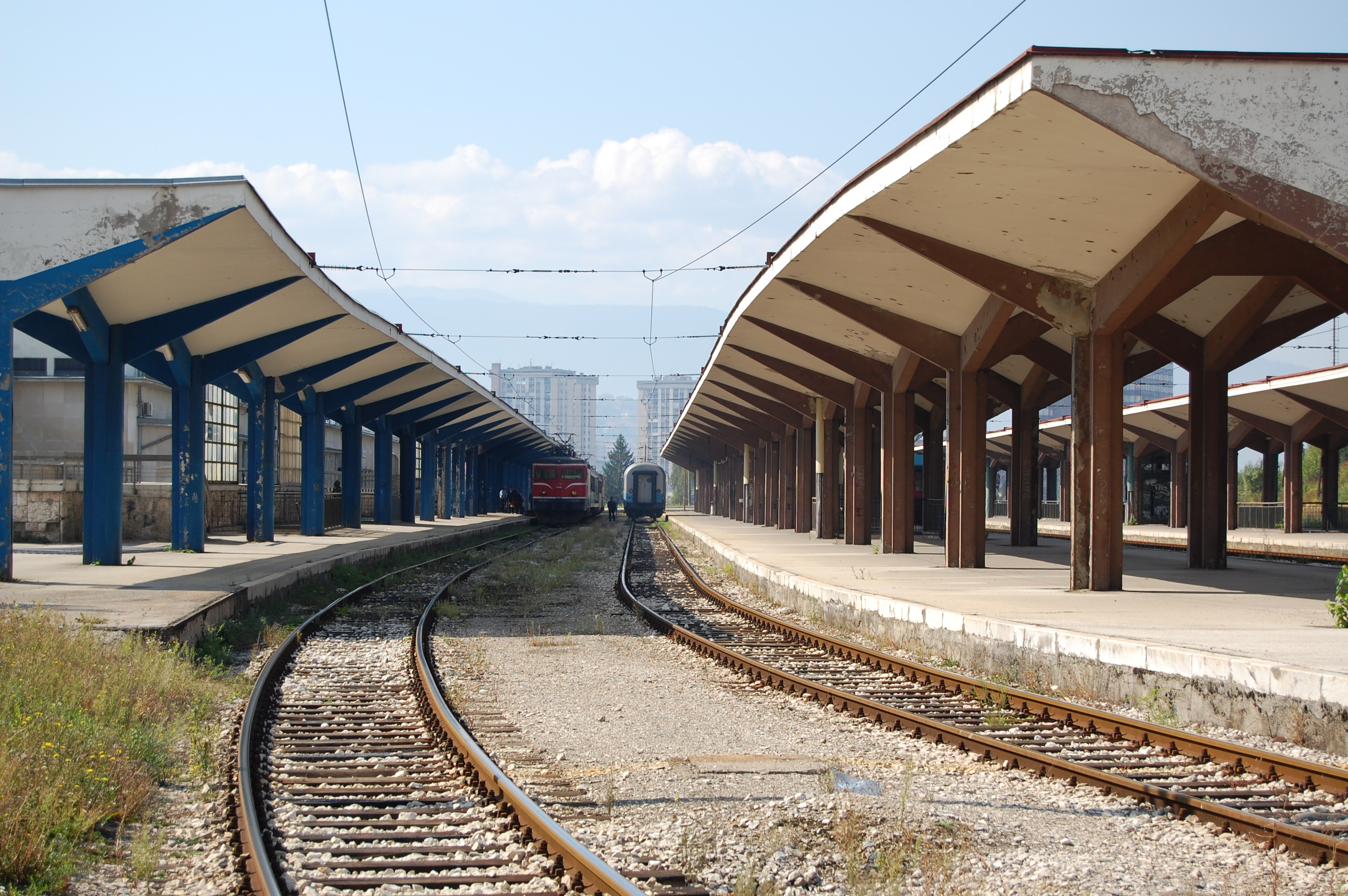 Railway Station in Sarajevo, October 1, 2011